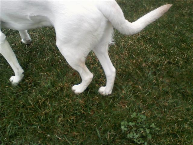 A Labrador Retriever standing with hind legs close together to compensate for weak hips caused by an altered gait from hip dysplasia.